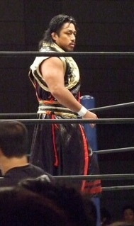 Professional wrestler Hirooki Goto at a New Japan Pro Wrestling event.